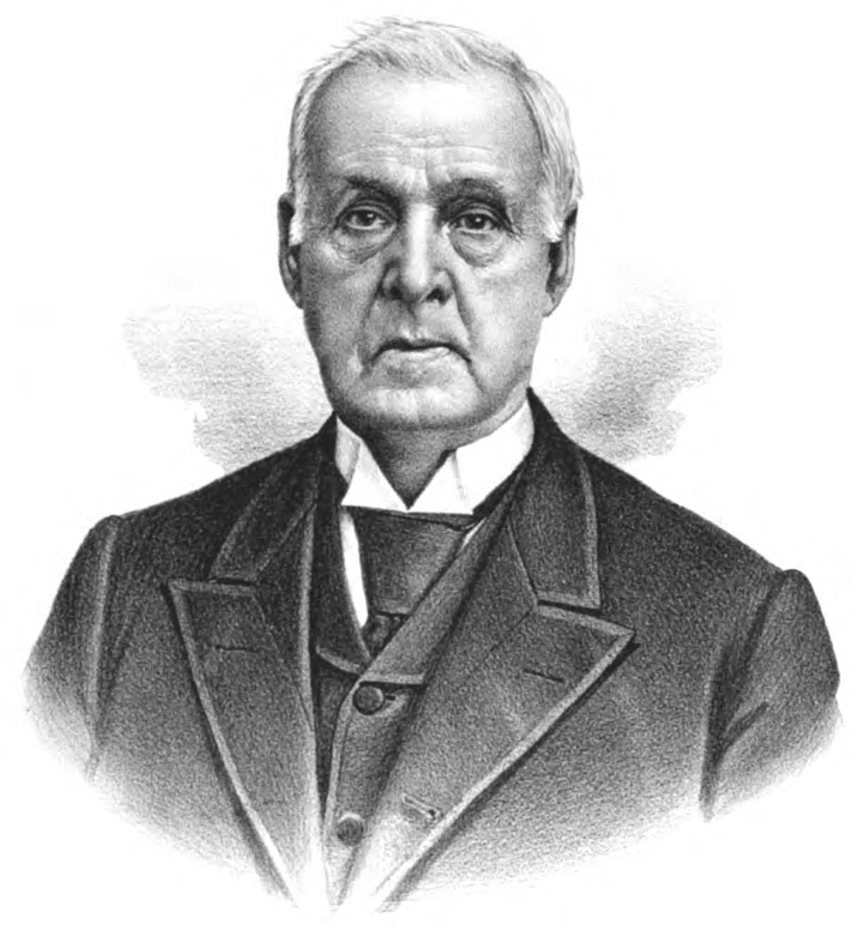 Ephraim R. Eckley was a politician from Ohio.